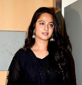 Anushka Shetty at the first look launch of Baahubali 2: The Conclusion during the 18th Mumbai Film Festival